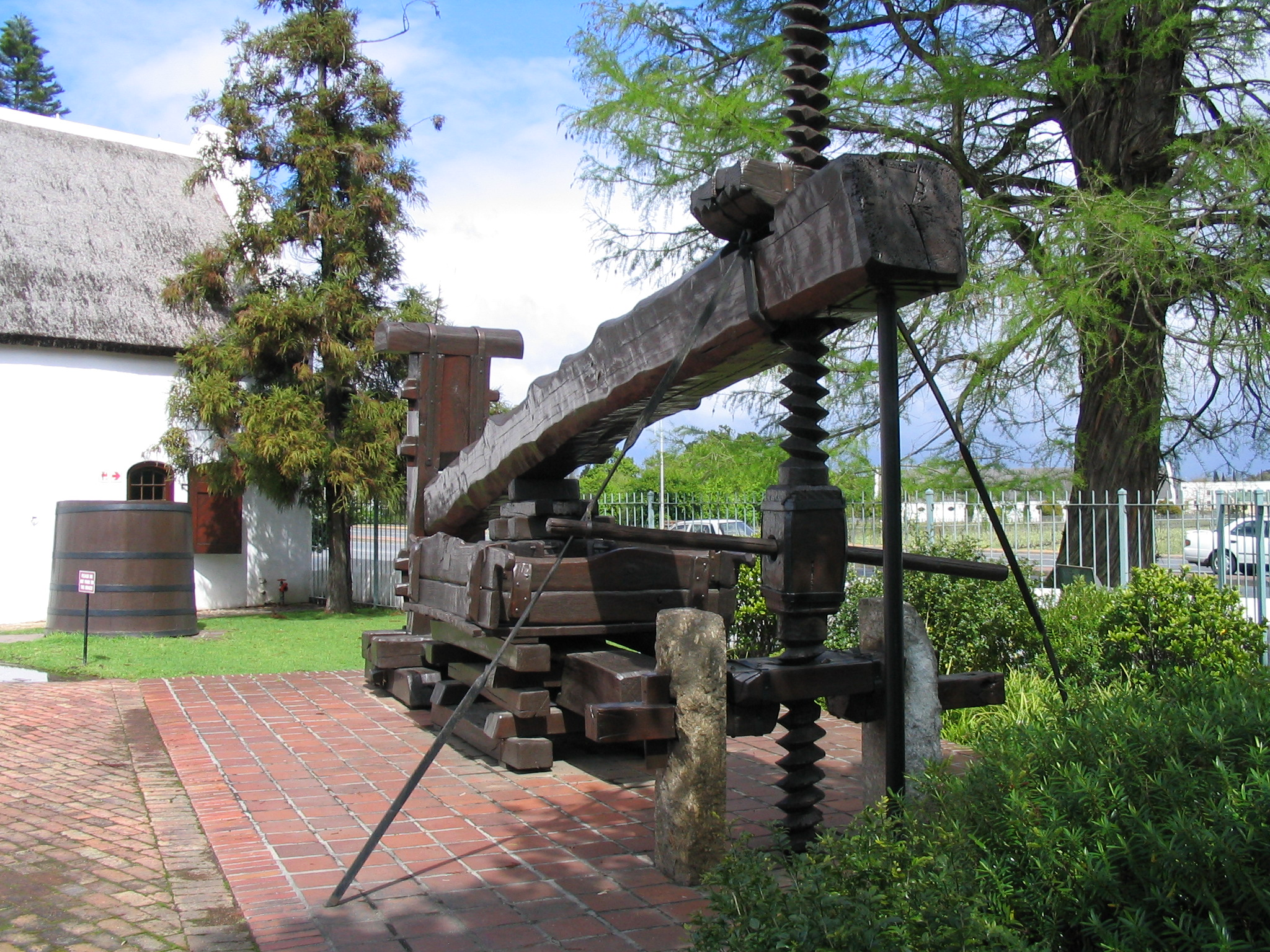 18th century German wine press displayed at Libertas Parva (Little Libertas), located at 25-33 Dorp Street in Stellenbosch is an 18th-century farm homestead property which now houses the Rembrandt van Rijn Art Gallery. The cellar building at the back of the complex now houses a wine and cork museum. This media shows a South African Protected Site with SAHRA file reference 9/2/084/0078.